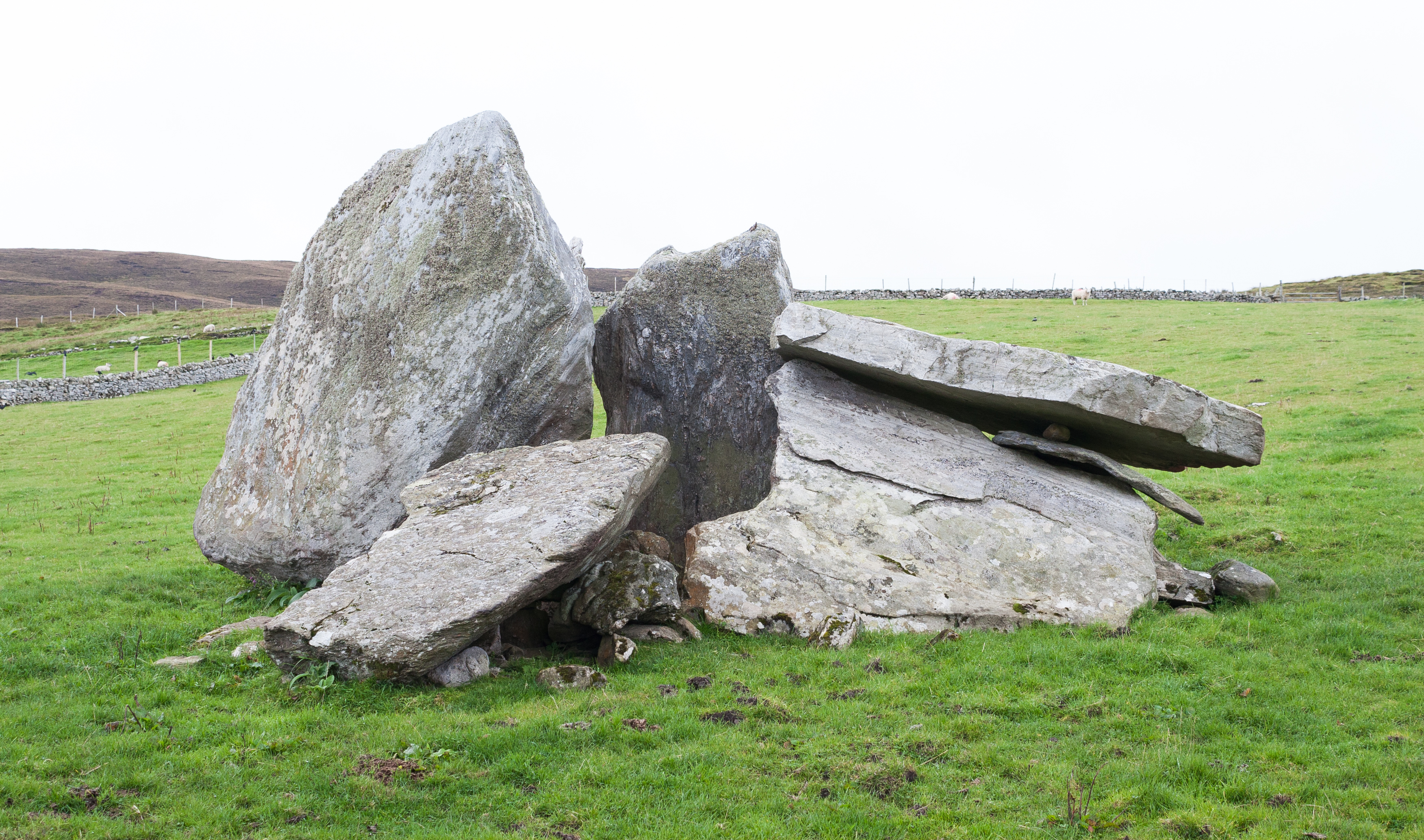 Westmost megalithic tomb at Malin More. This is listed as national monument 139 (4) in state care.